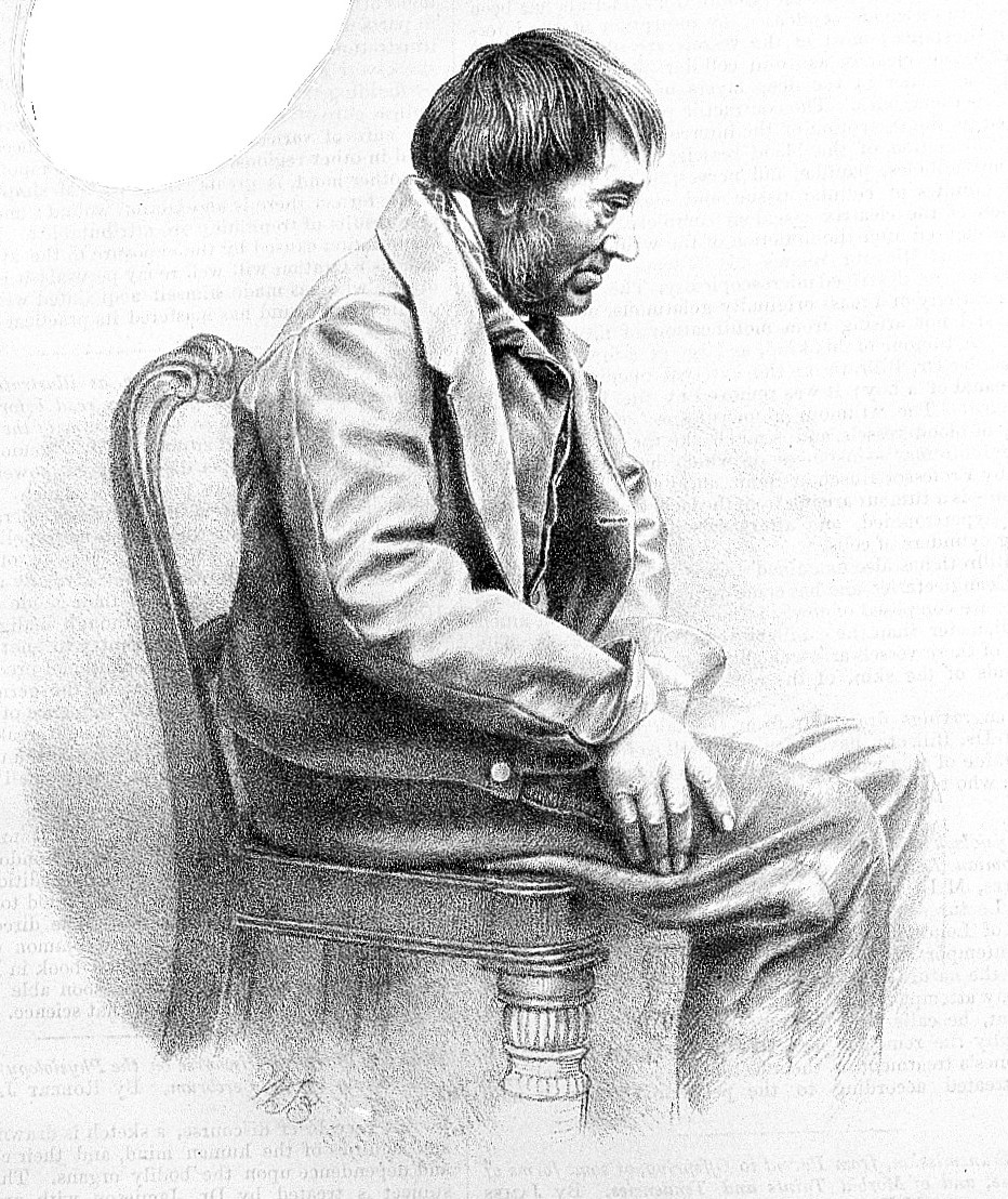 'Melancholy' by W. Bagg after a photograph by H. W. Diamond Wellcome Images Keywords: Psychiatry; W. Bagg; Hugh Welch Diamond